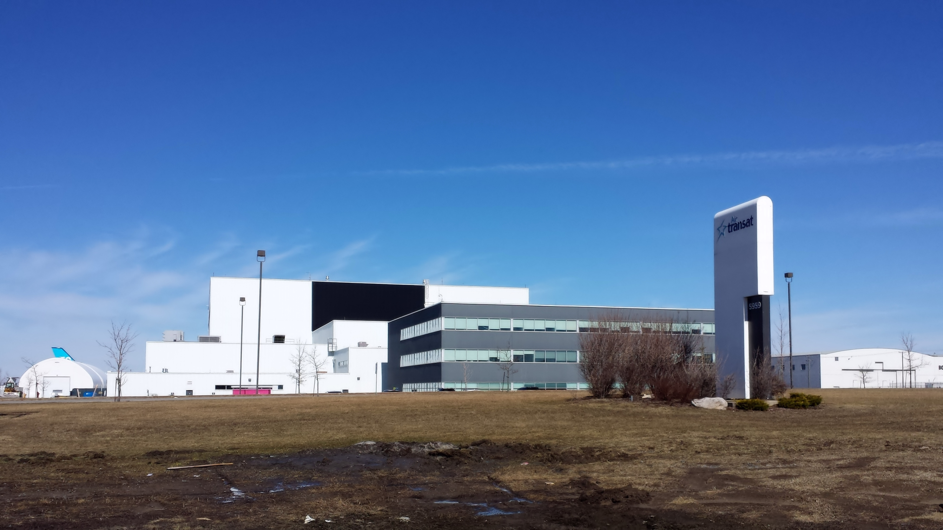 Air Transat headquarters, Montreal, Quebec, Canada